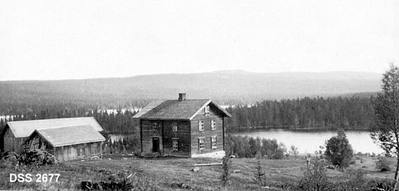 Utsikt over Våja fra Våja gård 1923